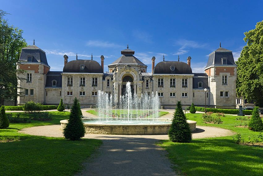 Thermes de Lons-le-Saunier